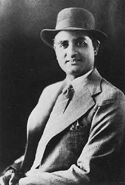 Picture of K. L. Saigal